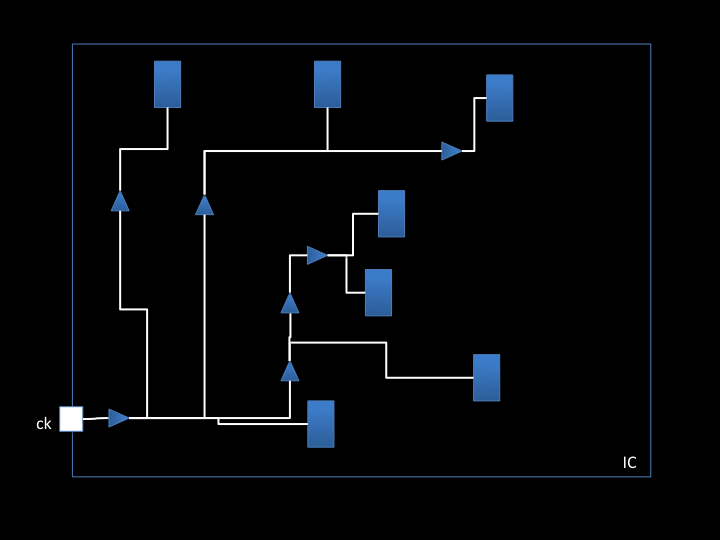 possible clock tree implementation with non inverting buffers. Layout.